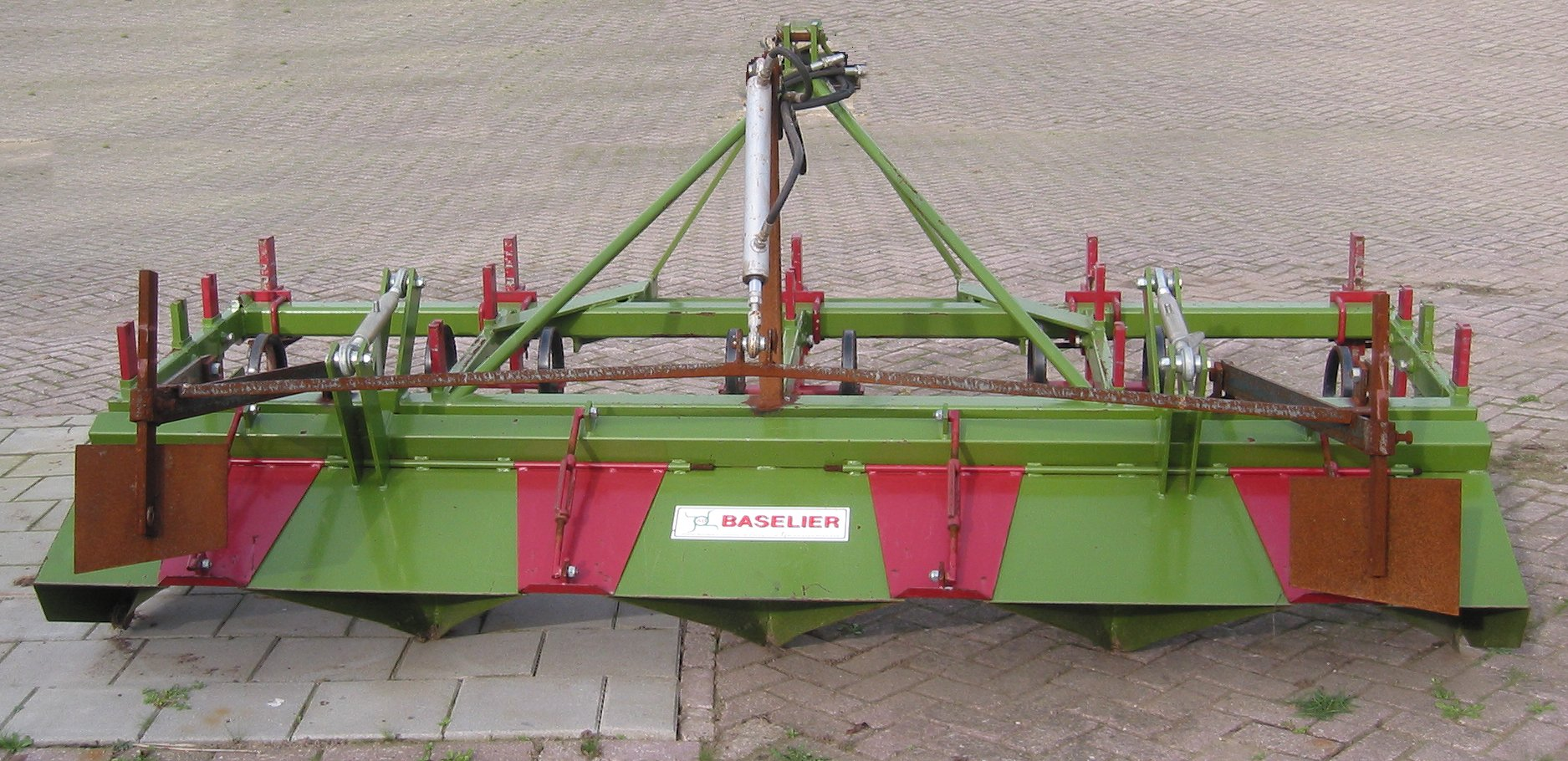 Baselier potato bed former, 4 rows, rear side